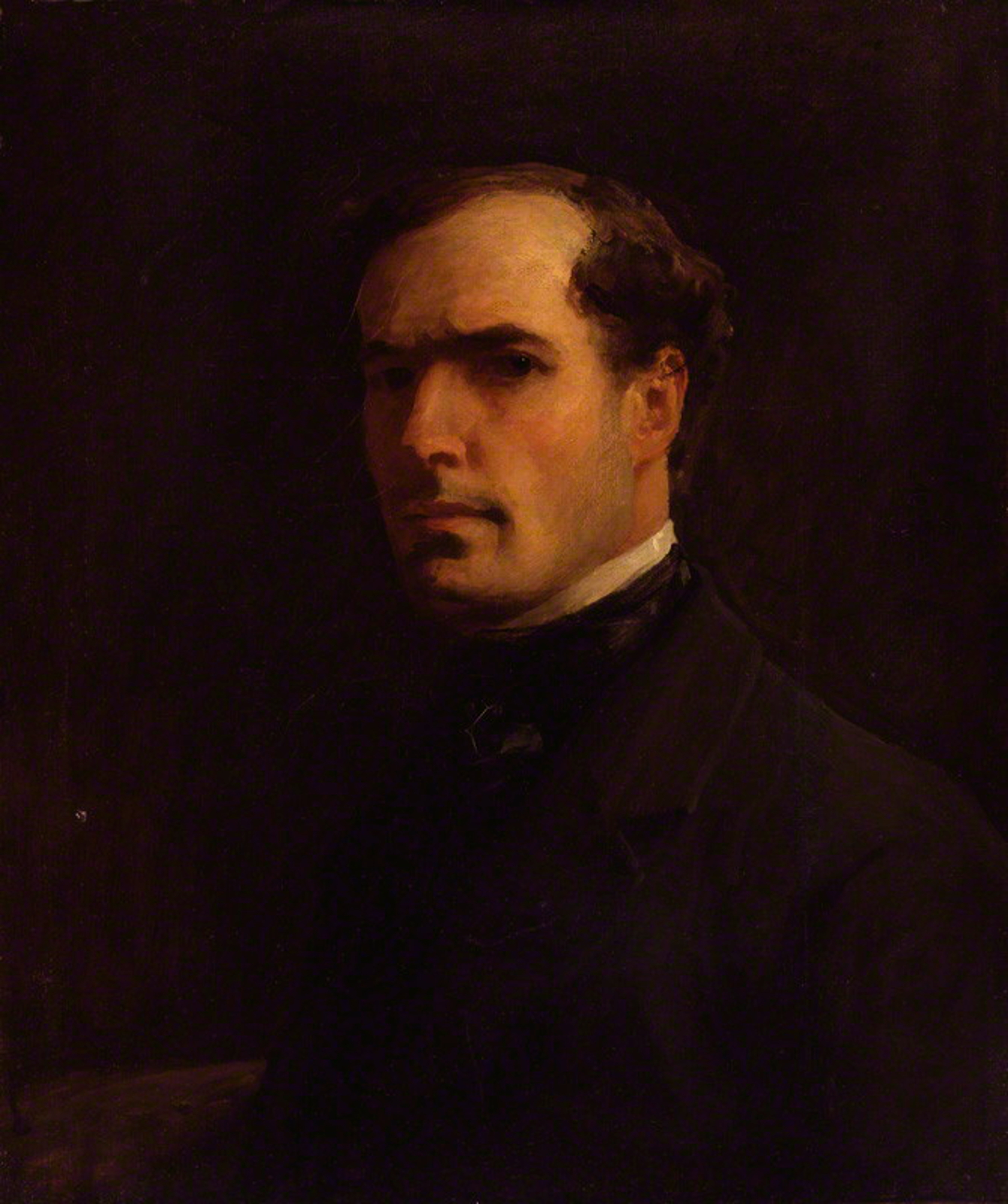 A self portrait by Reginald Grenville Eves (24 May 1876 - 13 June 1941), a British painter who painted portraits of many prominent military, political and cultural figures between the two world wars.